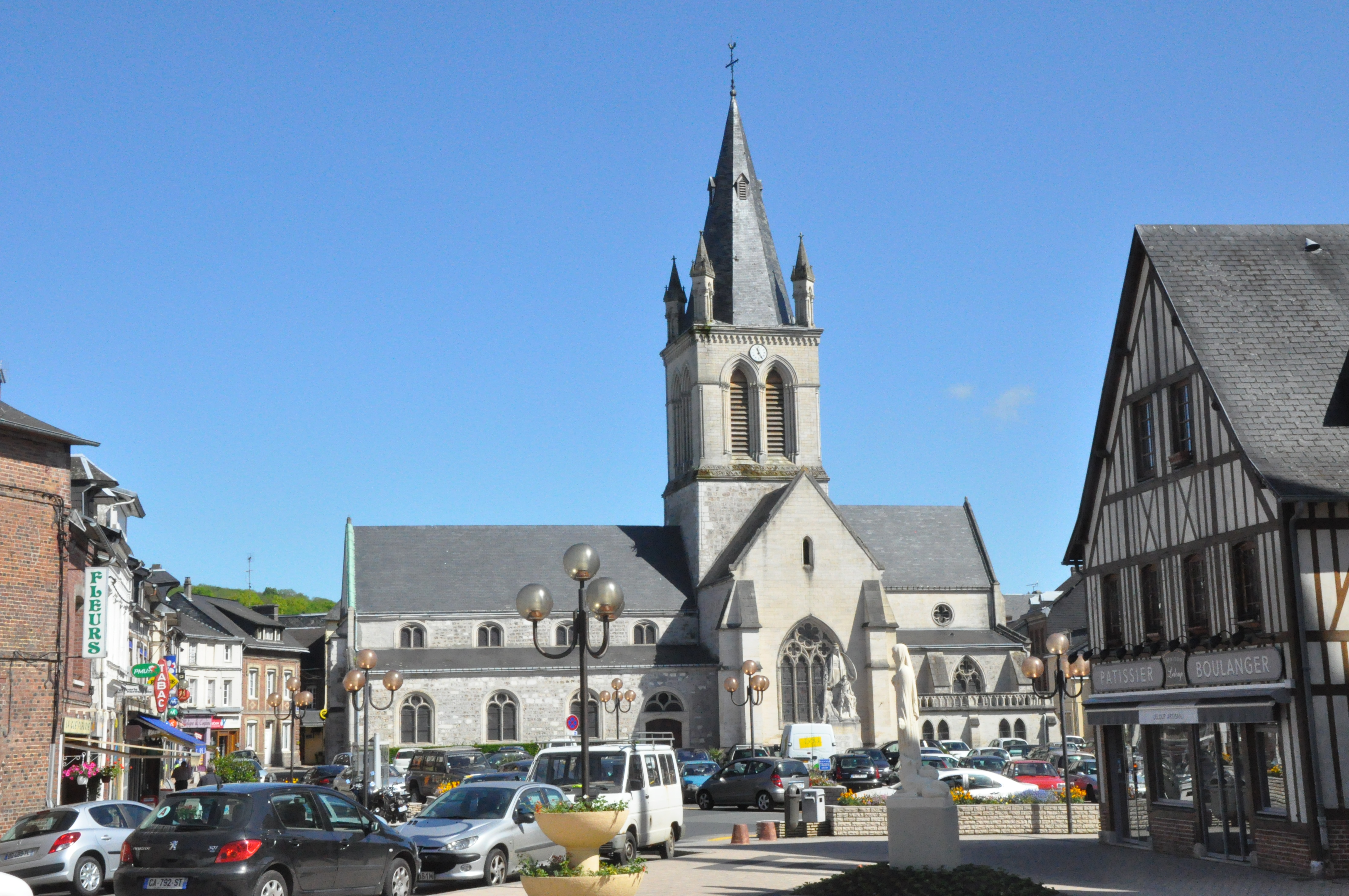 Square and church of Pavilly (France, Normandy)